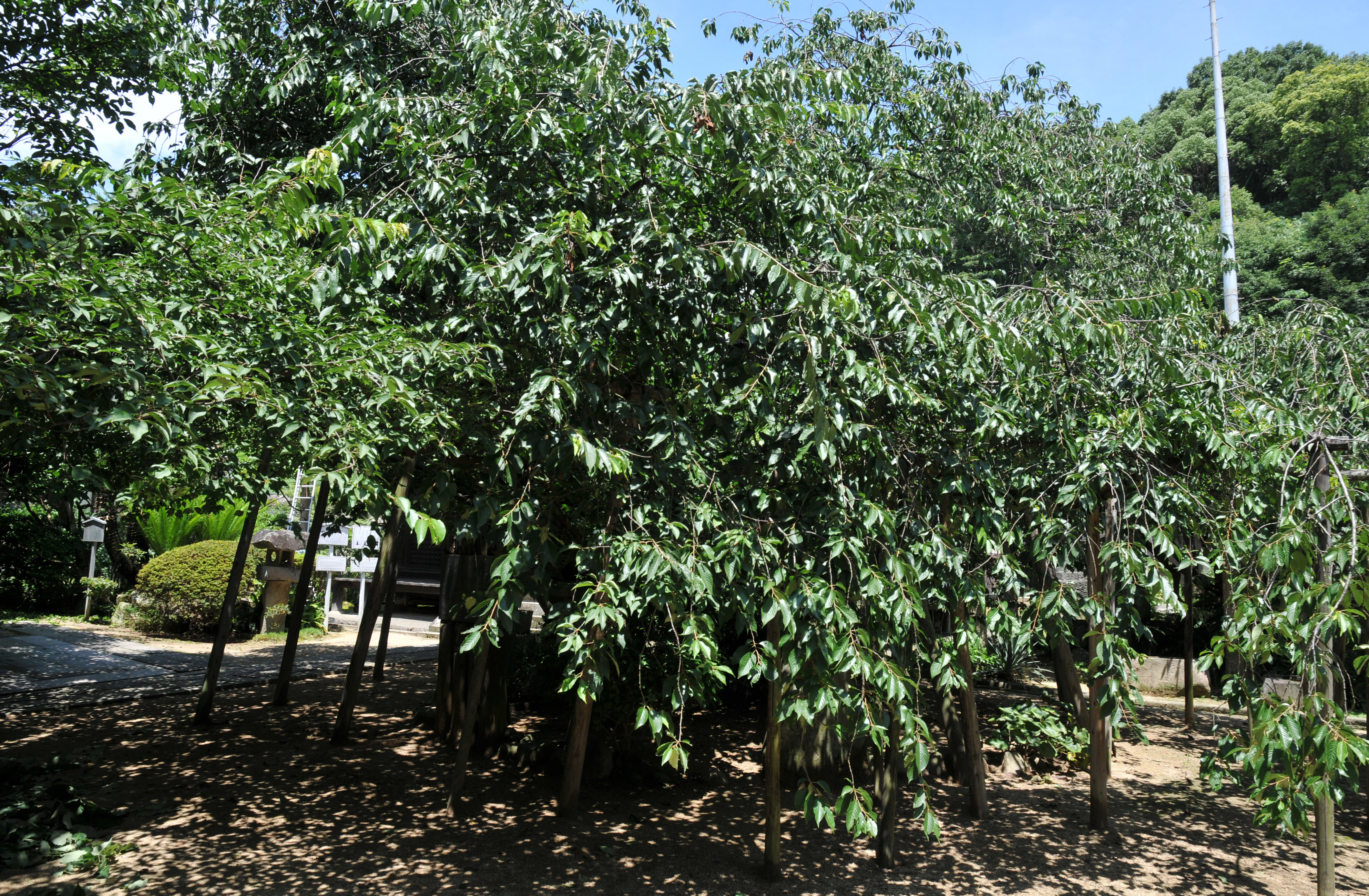 "Ubazakura" Cherry tree, Taihō-ji